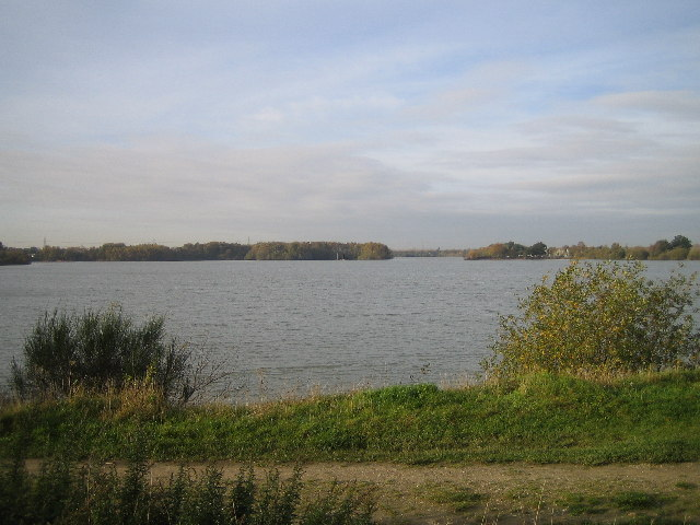 Gravel Pits - North Hykeham. These gravel pits were dug out in the 60's. Commonly know as the "Apex Pits" they now serve the sailing and fishing communities.